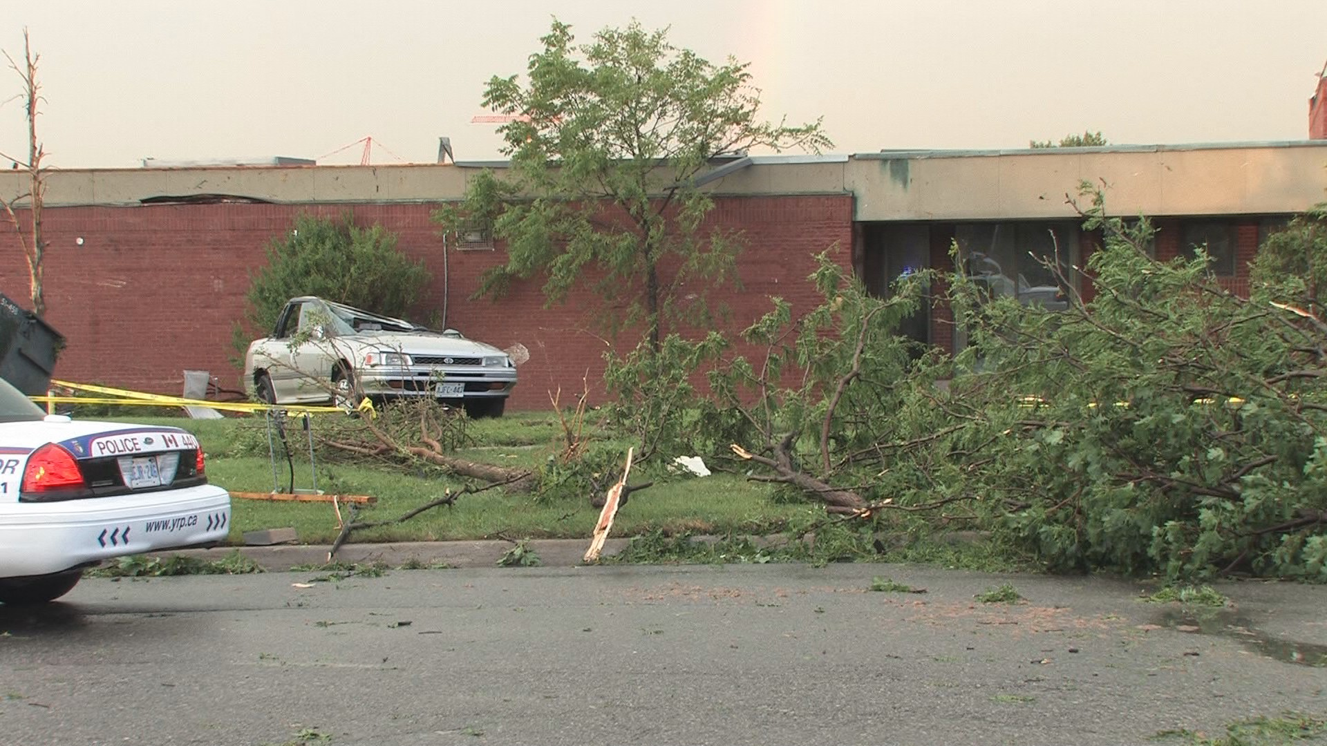 A partially crushed car rests on the lawn of St.Peters Catholic School after a powerful F2 tornado tears through the Woodbridge area of Vaughan